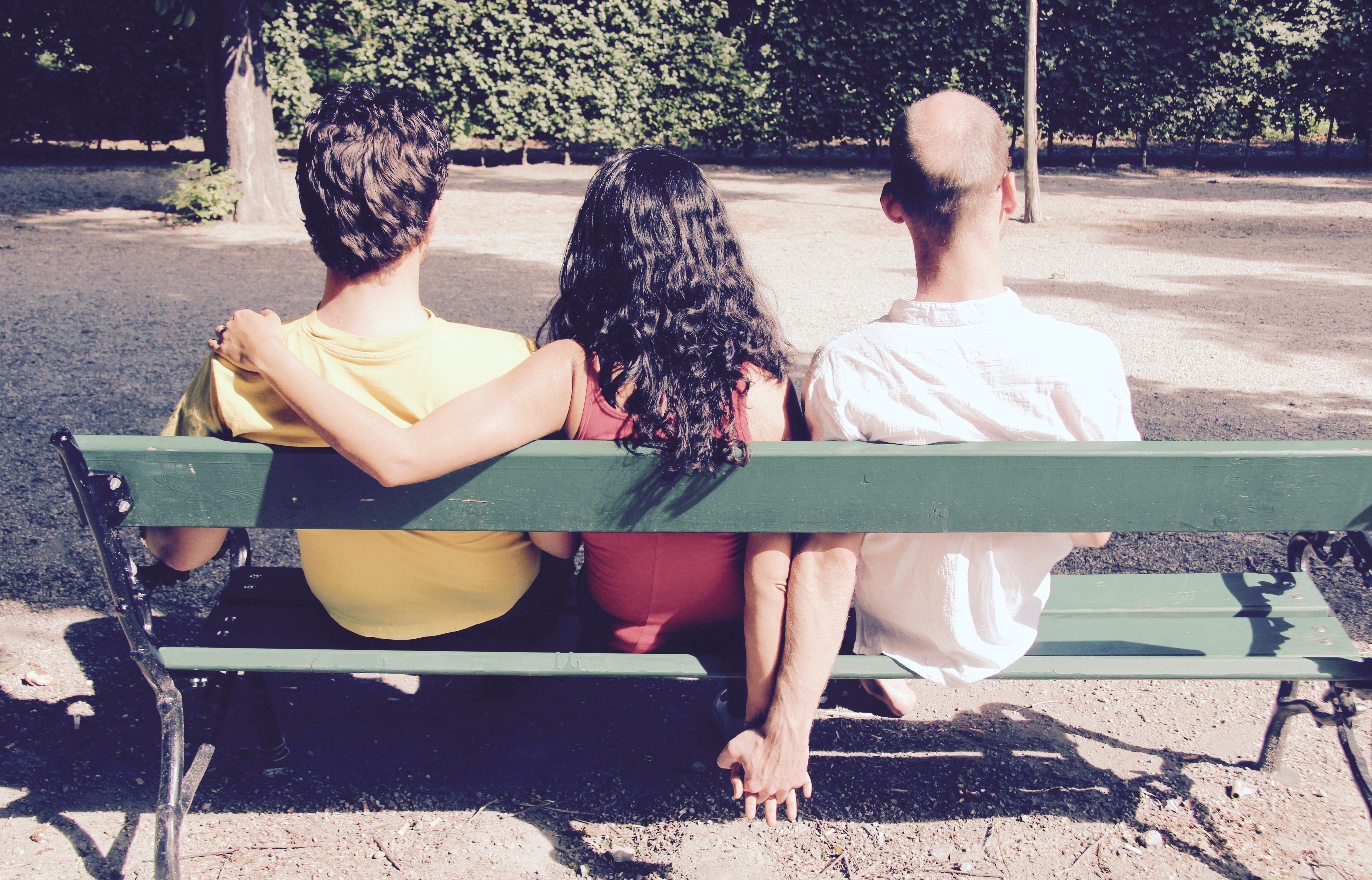 The picture shows three people in a polyamorous relationship. It was taken within a research project at the University of Vienna titling "Polyamory in media, social and identity perspective".